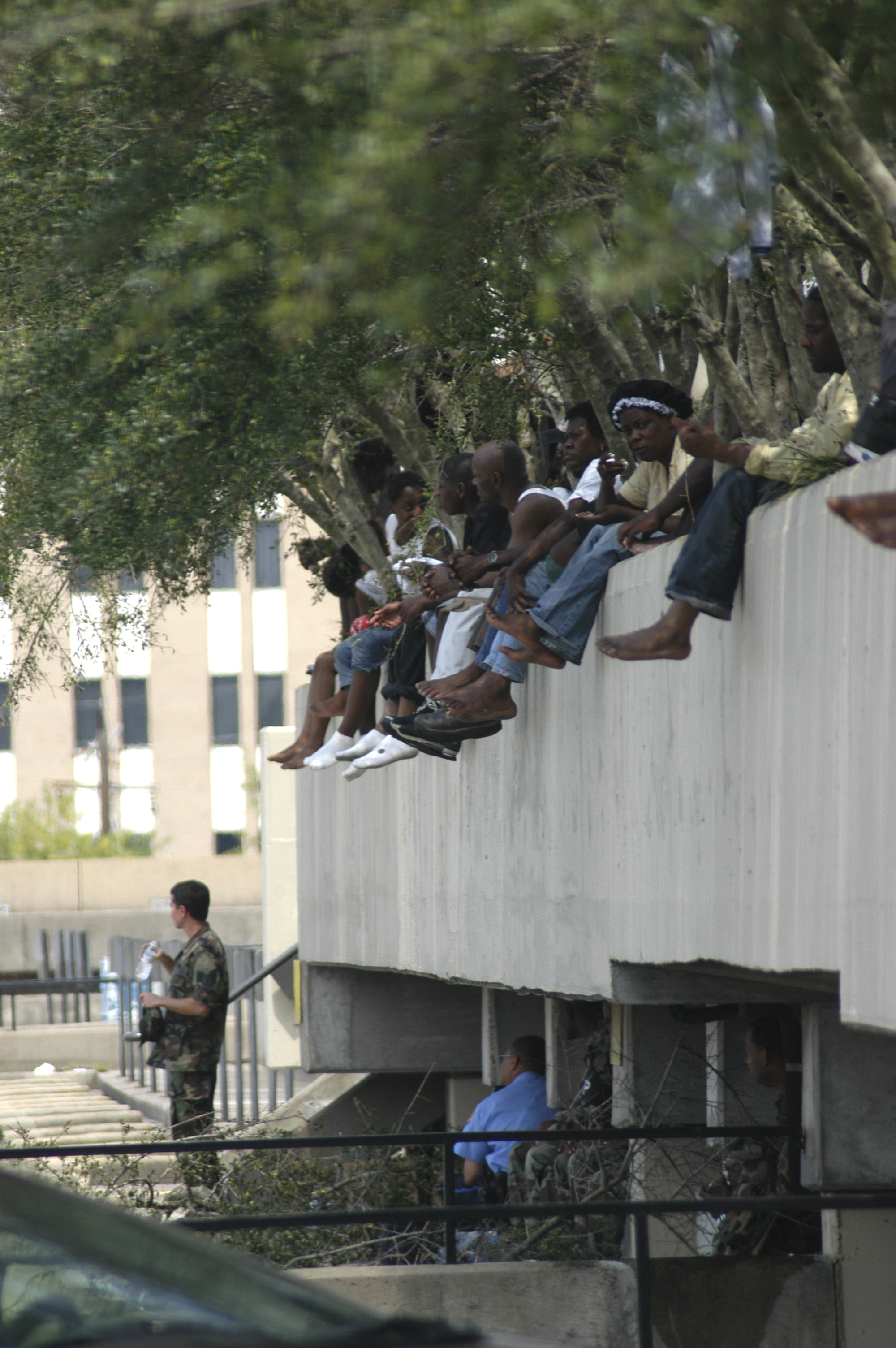 050831-N-8154G-176 New Orleans, La. (Aug 31, 2005) – Citizens of New Orleans wait for the flooding to recede outside the Super Dome football stadium. Tens of thousands of displaced citizens sought shelter at the dome, before, during and after Hurricane Katrina, but have been forced to evacuate as floodwaters continue to rise throughout the area.